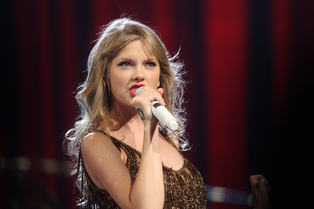 Taylor Swift Speak Now Tour Hots Sydney, Australia